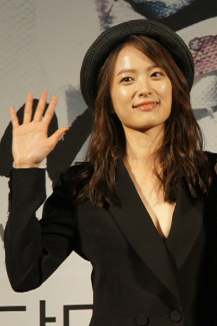 BIFF 2013